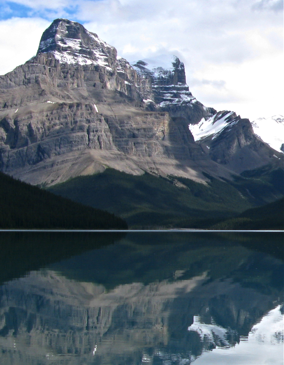 Monkhead (mountain) seen from Maligne Lake. Jasper Park, Canada